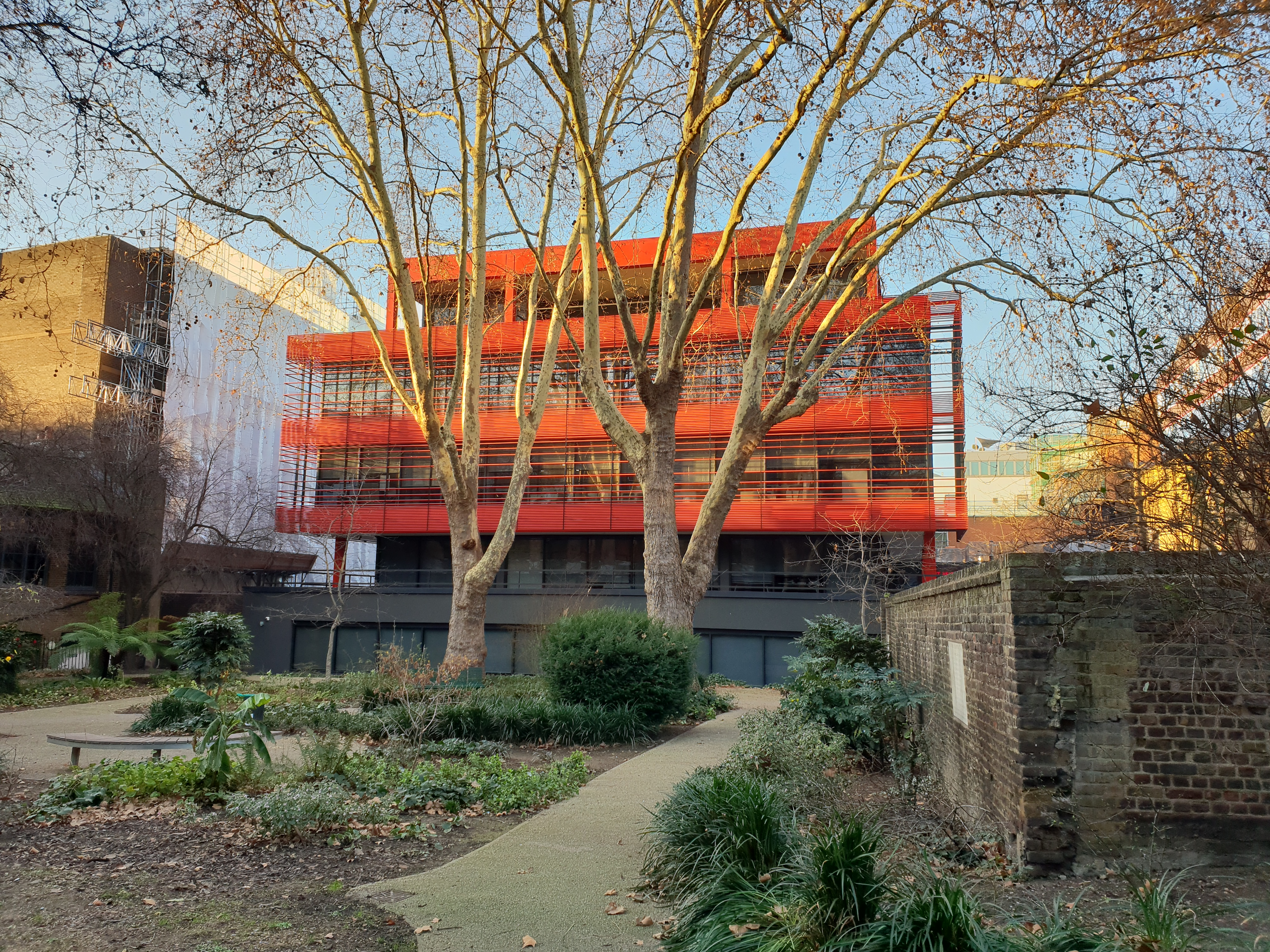 The distinctive building housing the fashion chain Kurt Geiger's headquarters seen from St John's Gardens, in Clerkenwell, London.